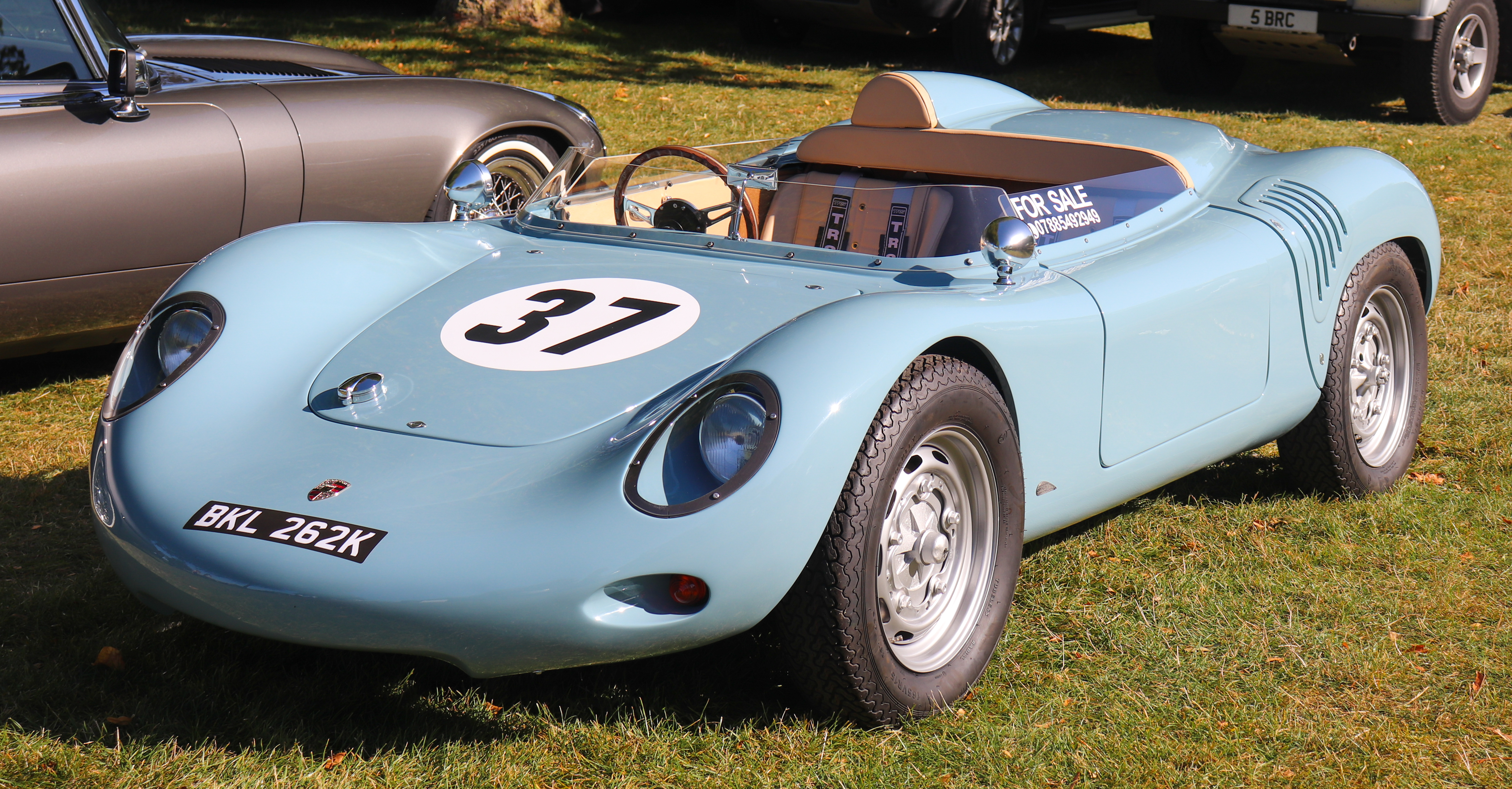 1971 (Donor) Spyders Inc 718-RSK Reproduction 1.6 Front Taken at the Salon Privé Concours d'Elegance Classic Car Motor Show 2019, Blenheim Palace